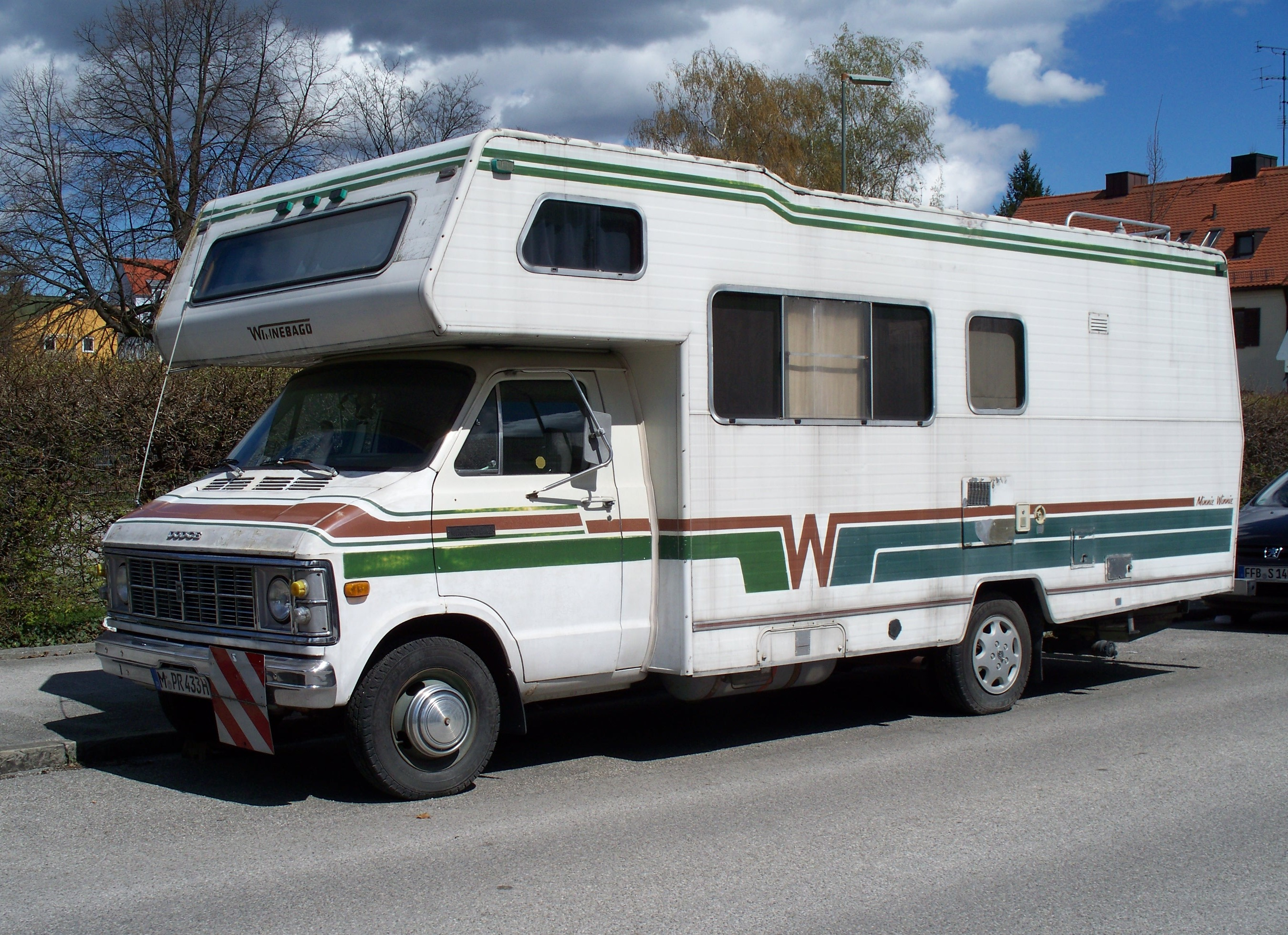 Dodge-based recreational vehicle (Winnebago motor home) in Munich.